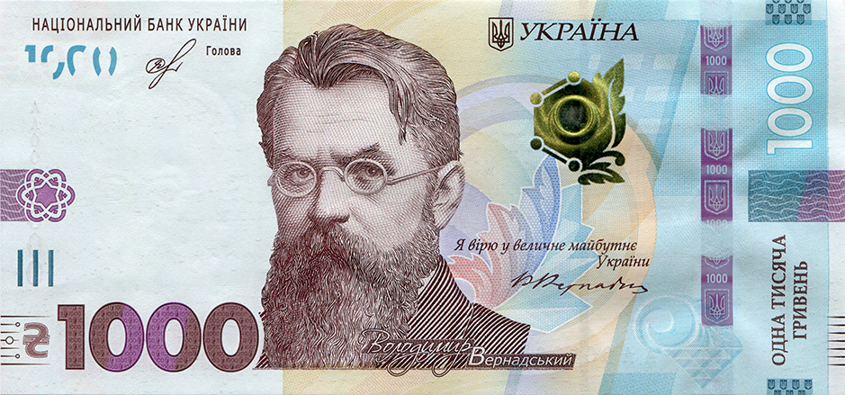 The Banknote of 1000 Hryvnia Denomination of 2019 issue. Front.